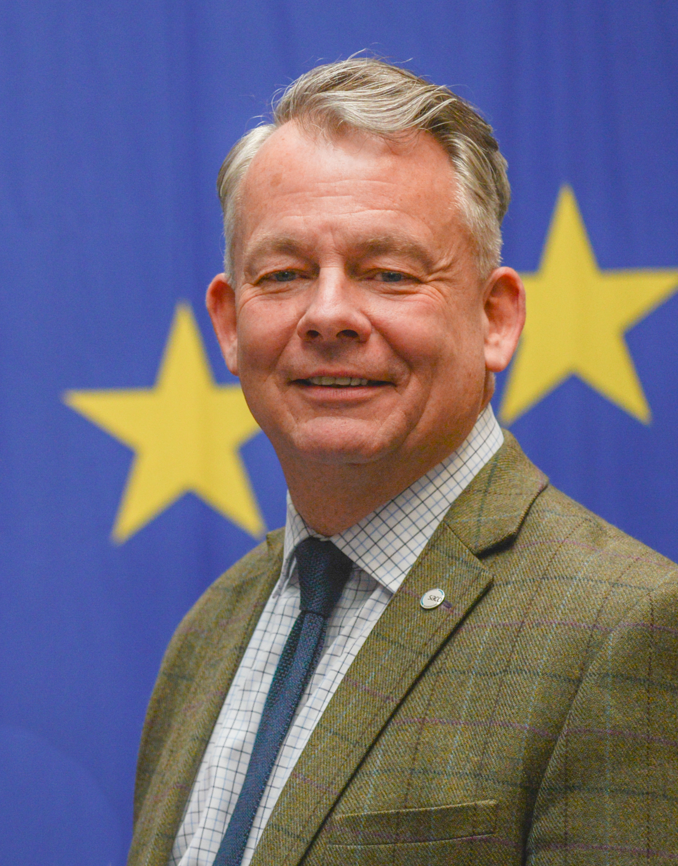 Campaigns for the 2014 European Parliament election in Sweden.